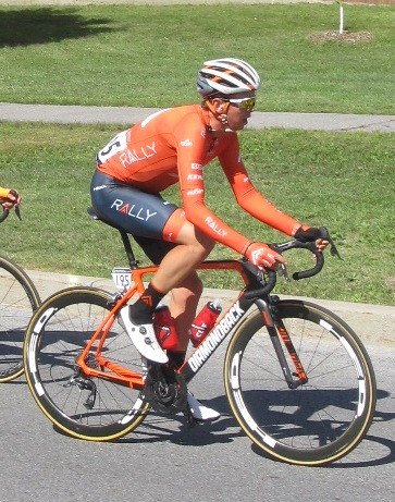 Nigel Ellsay on Chemin de la Polytechnique during the second lap of the Grand Prix Cycliste de Montréal 2018.